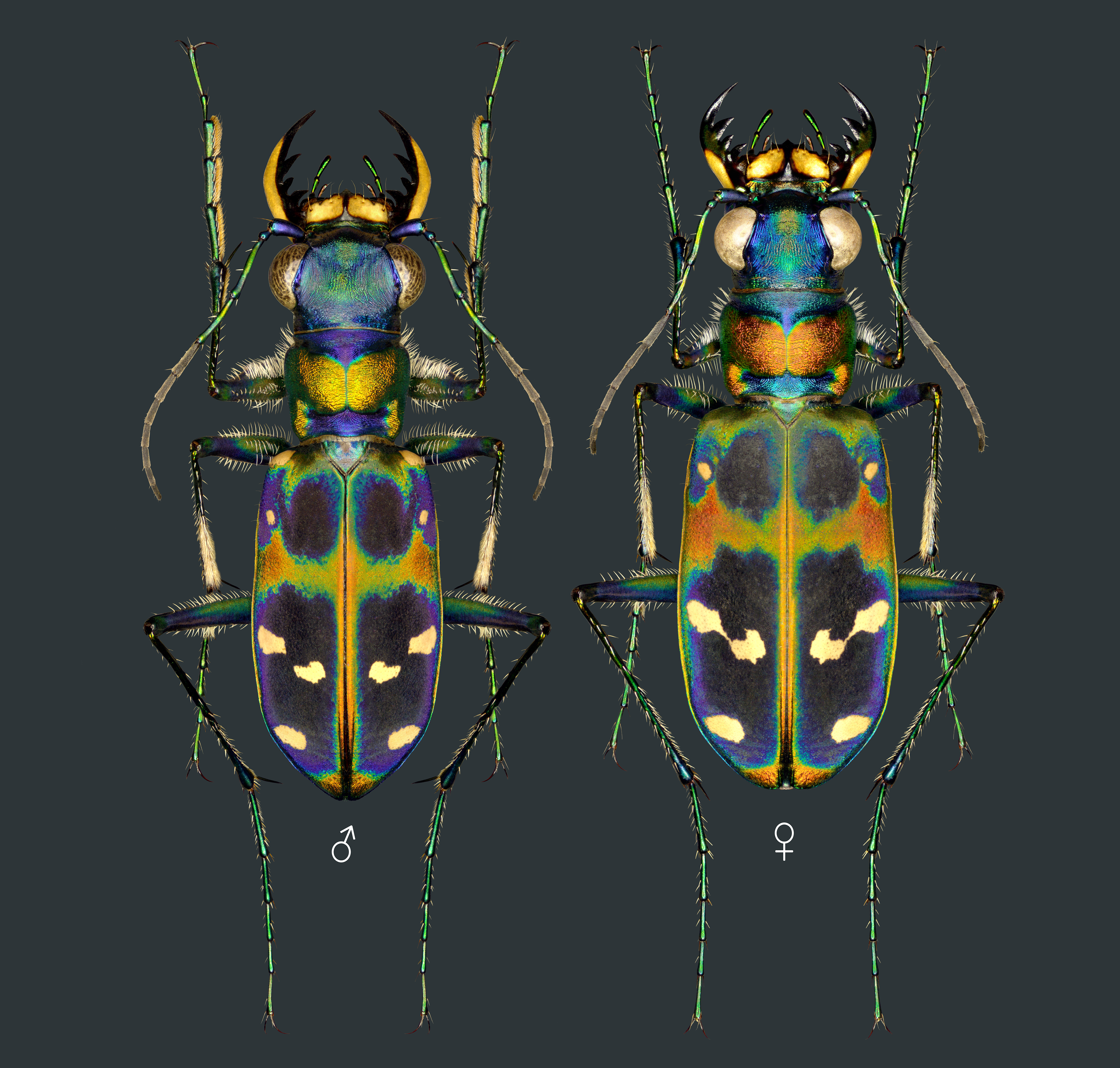 Tiger beetle Cicindela chinensis japonica Thunberg, 1781 (Coleoptera, Carabidae), male and female. Japan. Inhabits the islands of Honshu, Shikoku, Kyushu, Tsushima and Yakushima.